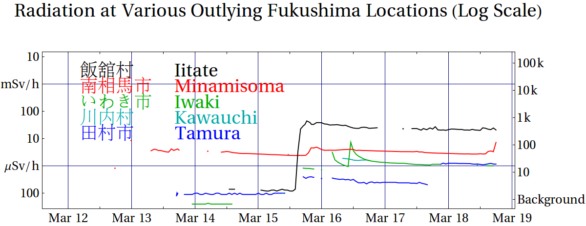 =A logarithmic plot of the radiation levels at various outlying towns between 20 and 40km from the Fukushima I Nuclear Power Plant during the crisis caused by the 2011 Tōhoku earthquake and tsunami. Data collected from: [1], [2]